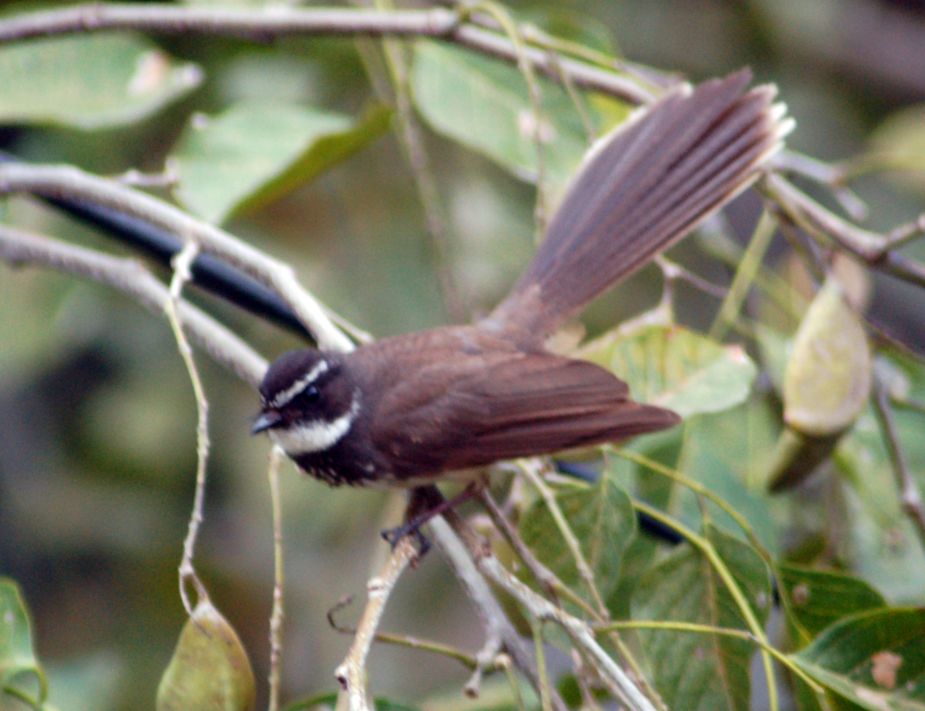 White-spotted Fantail(Rhipidura albogularis)